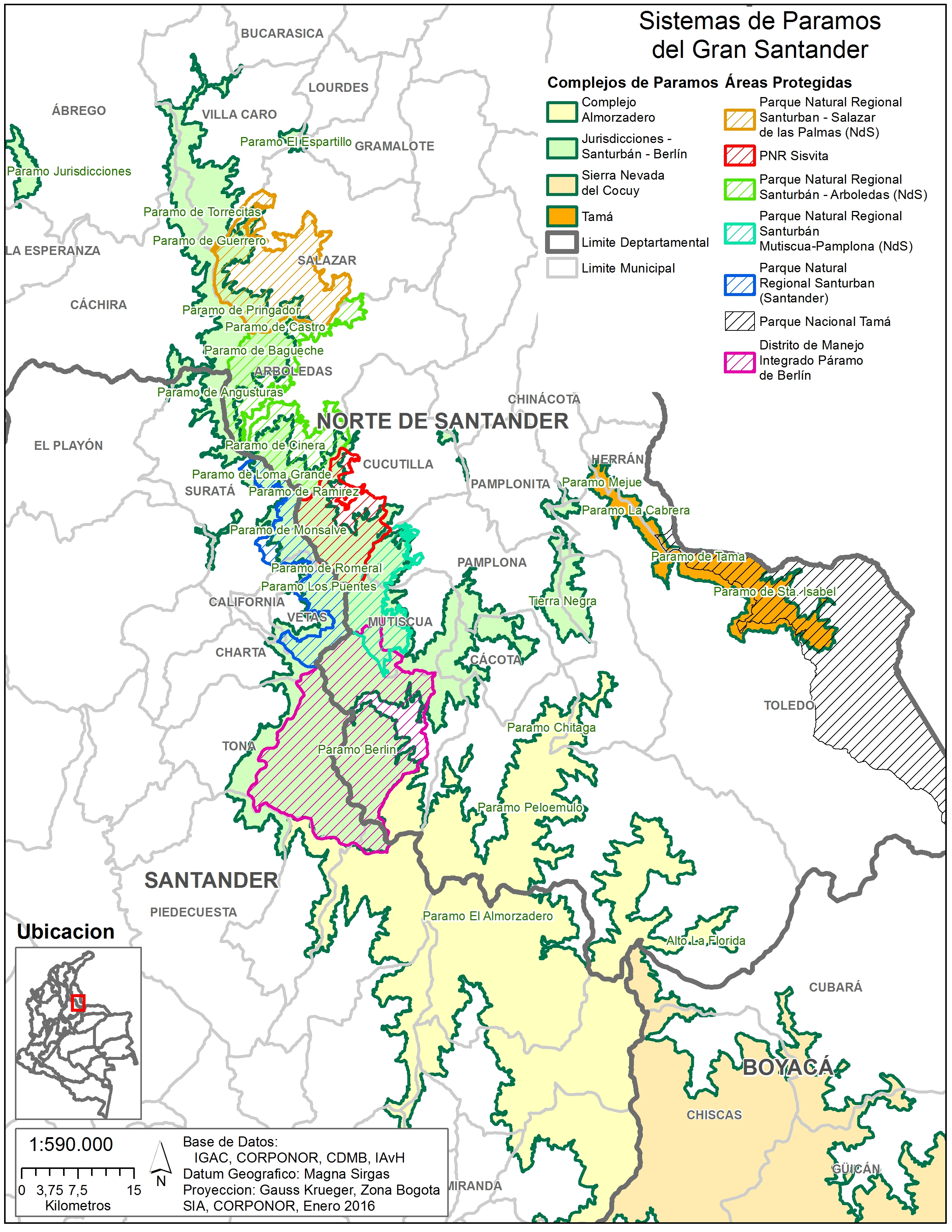 Paramo Ecosystems of the Gran Santander - Santurban, Almorzadero, Tamá, including the Protected Areas "Sisavita" y "DMI Berlin"